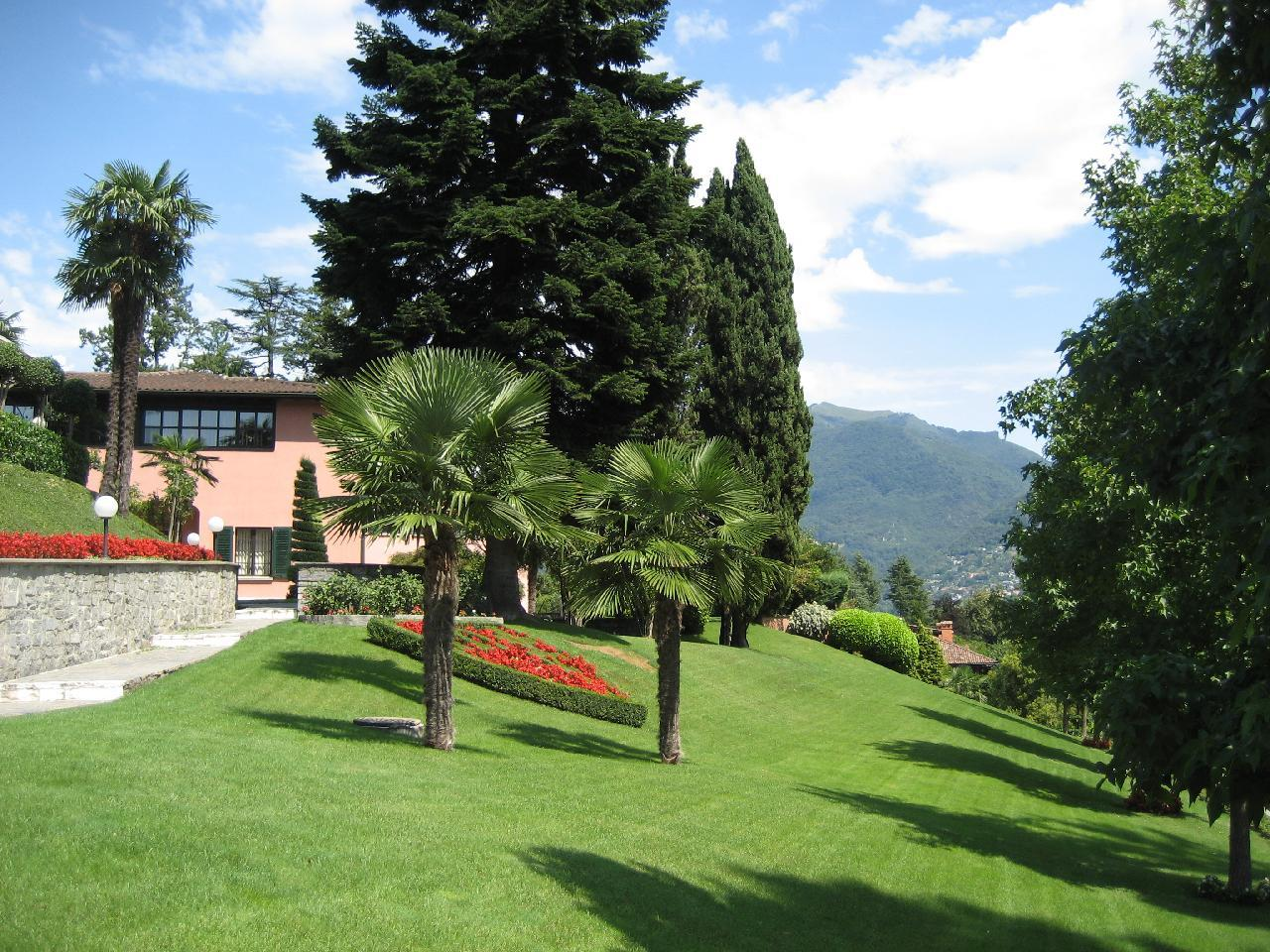 Main Campus of Franklin College, Switzerland, in August 2007